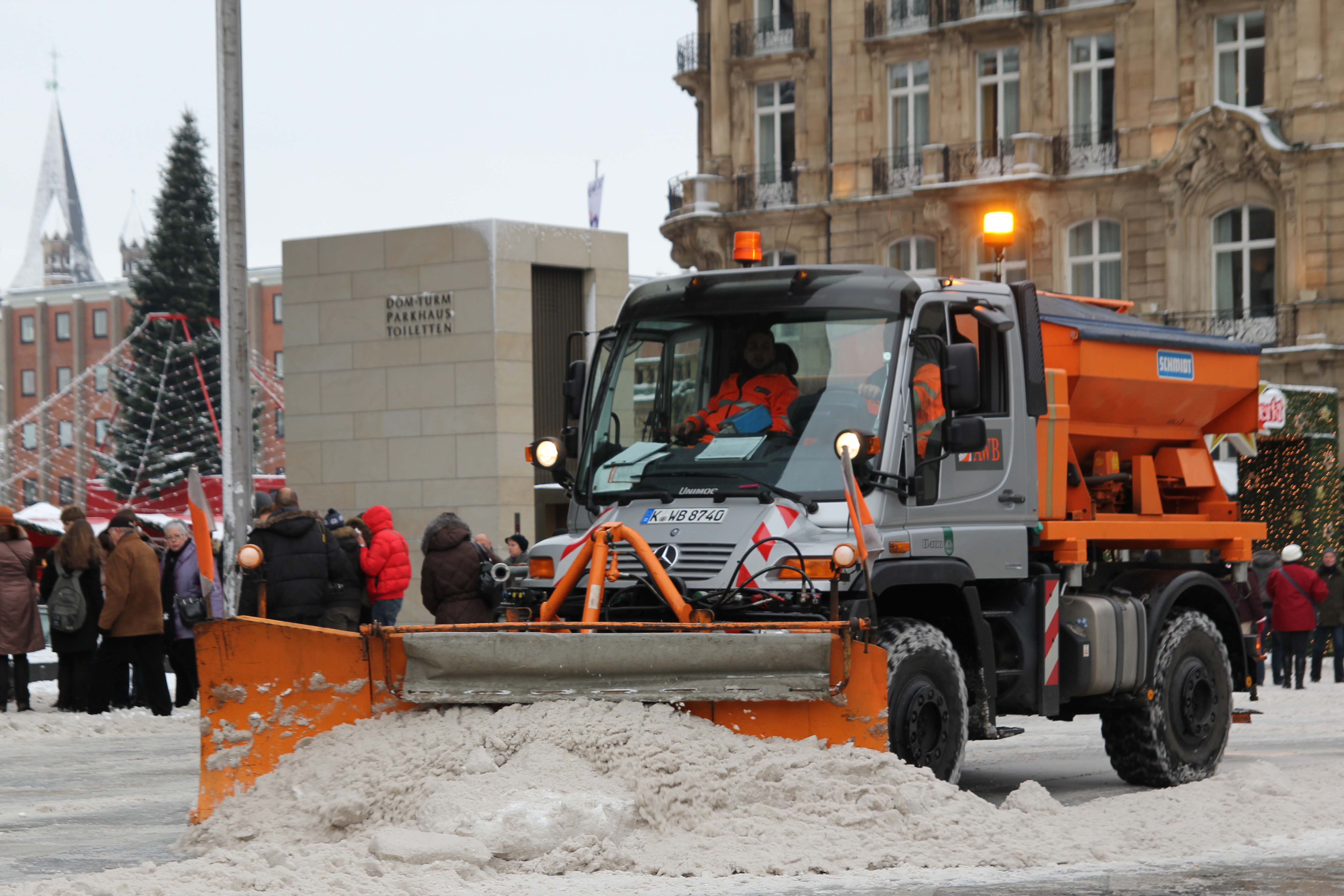 Snowplow at Cologne Cathedral